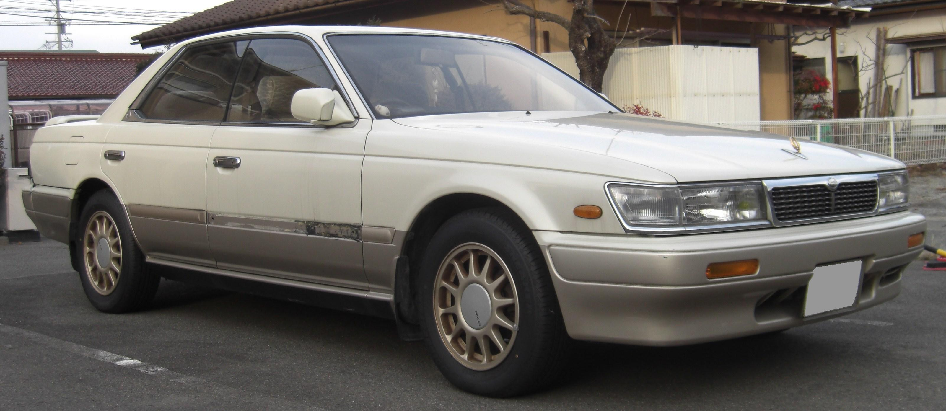 NISSAN Laurel